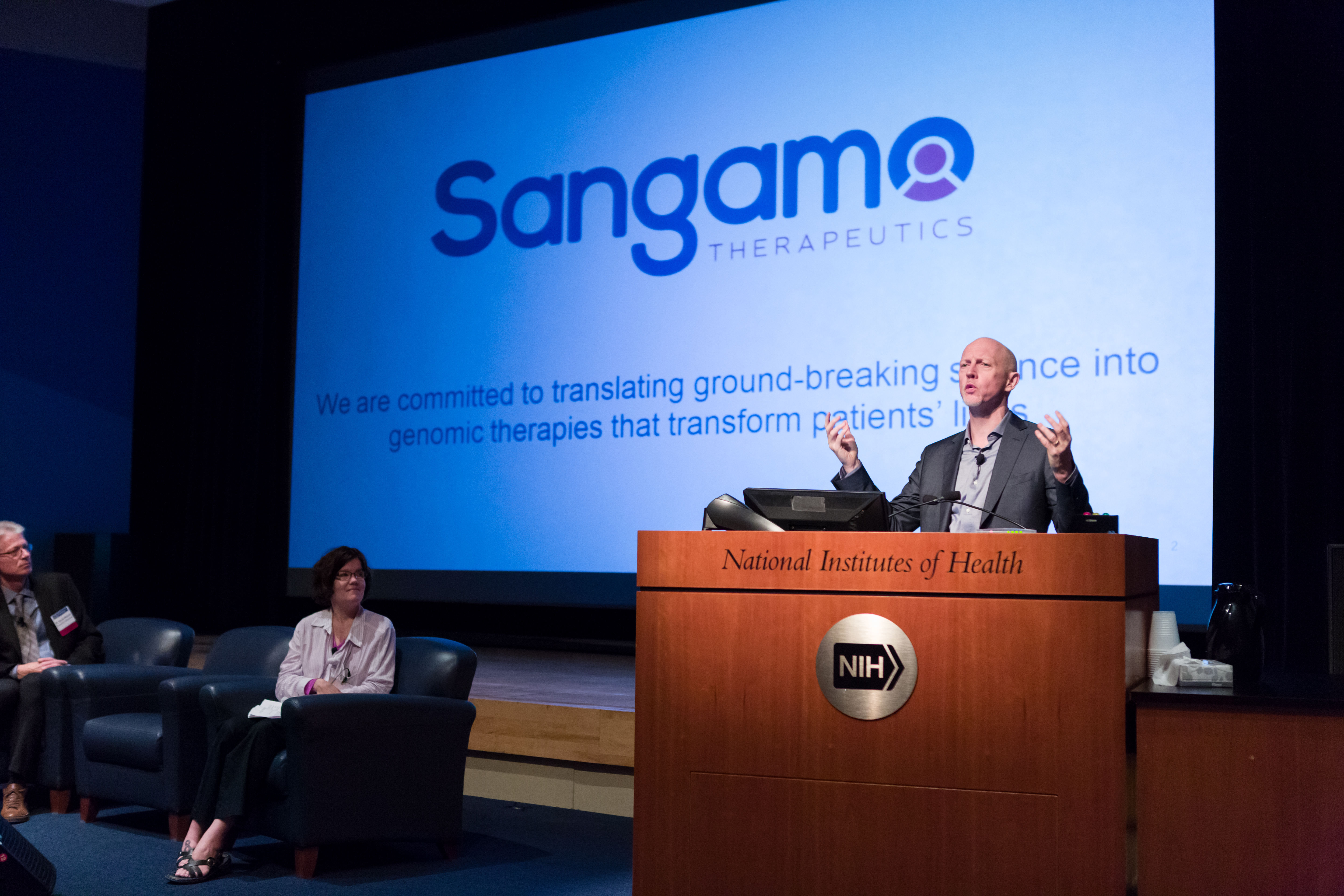 Sandy Macrae, M.B., Ch.B., Ph.D., President and CEO, Sangamo Therapeutics speaks at Rare Disease Day at NIH 2018. Credit: Daniel Soñé Photography, LLC